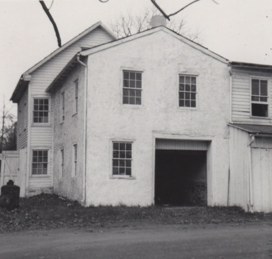 This the London Grove blacksmith shop that has been in operation for many years. Also in the village was a general store located where the parking lot for the apartment building now is found.